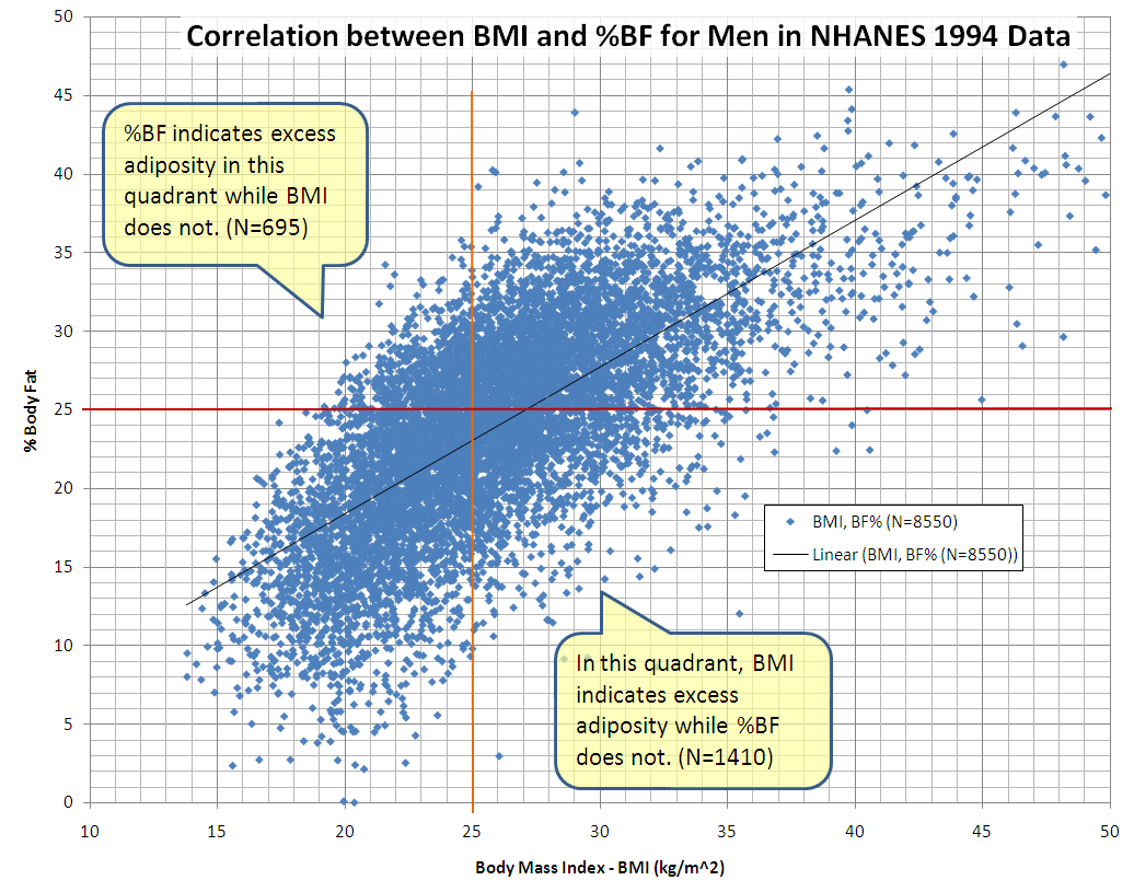 The graph shows the correlation between body mass index (BMI) and percent body fat (%BF) for men in NCHS' NHANES III 1994 data. The body fat percent shown uses the method from Romero-Corral et al. to convert NHANES BIA to %BF[1] ↑ (June 2008). "Accuracy of body mass index in diagnosing obesity in the adult general population". International Journal of Obesity 32 (6): 959–956. PMID 18283284. PMC: 2877506.